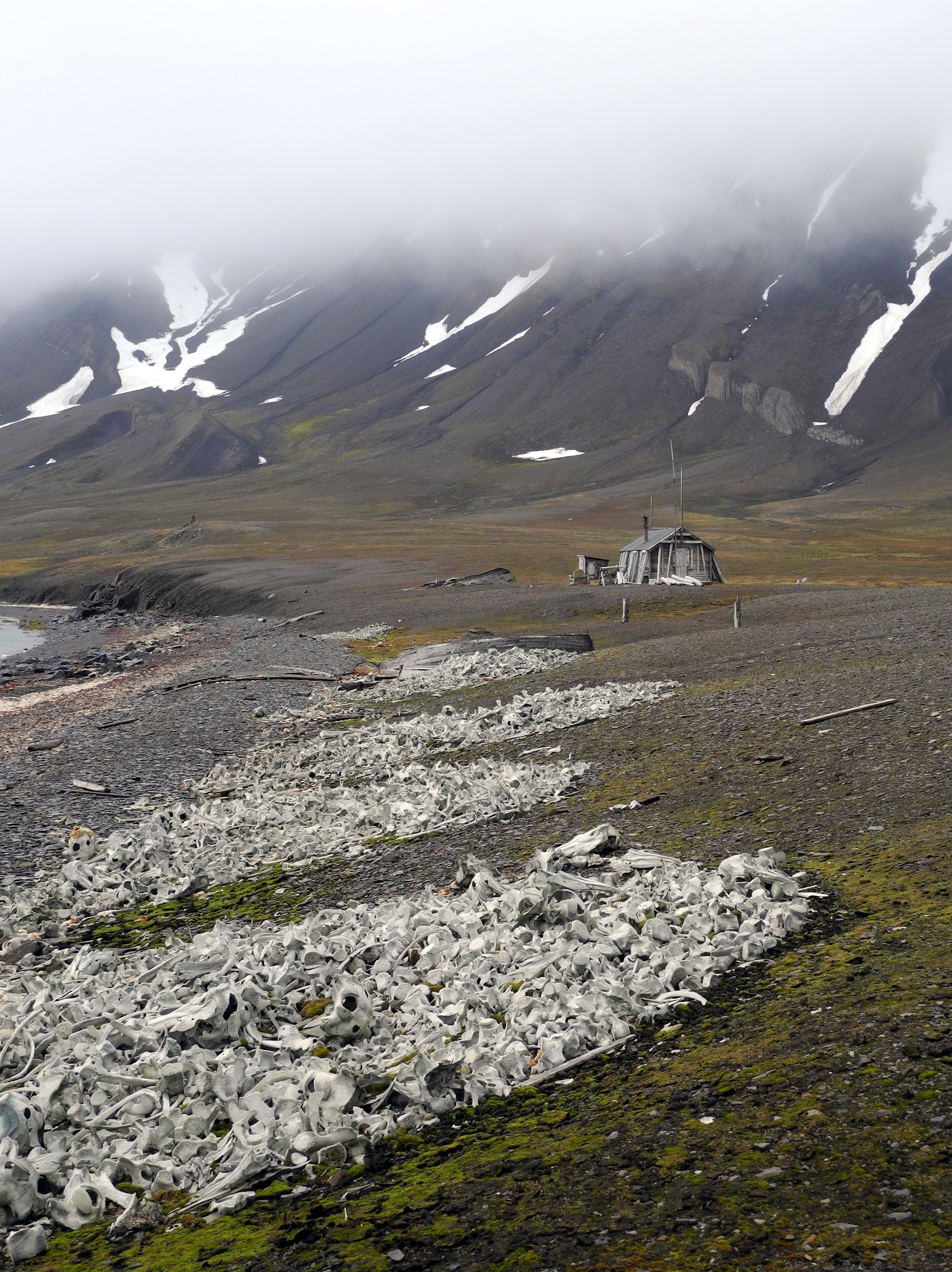 Whaling station with whale bones and cabin Bamsebu at Van Keulenfjorden.